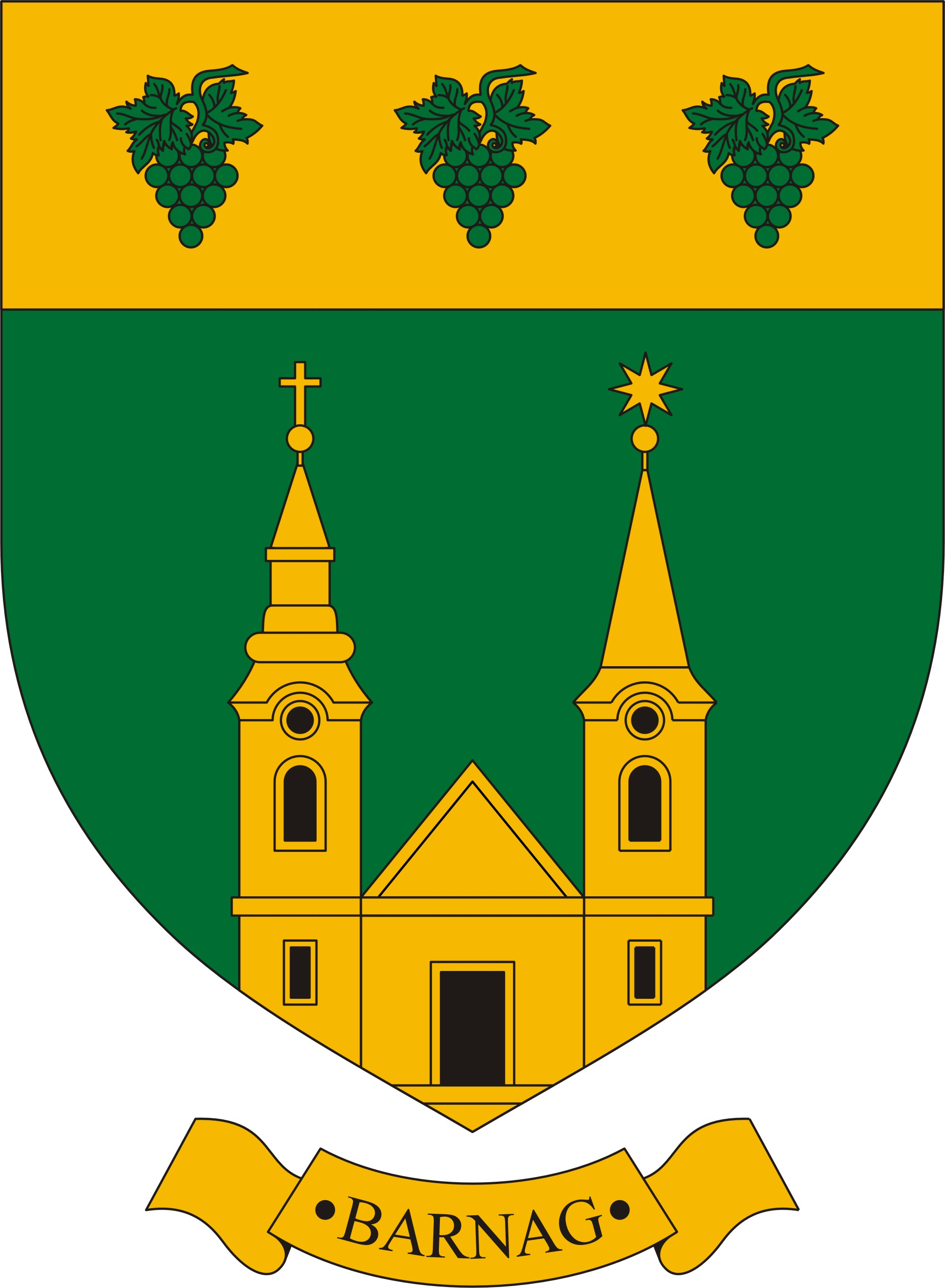 Coat of arms of Barnag, Hungary